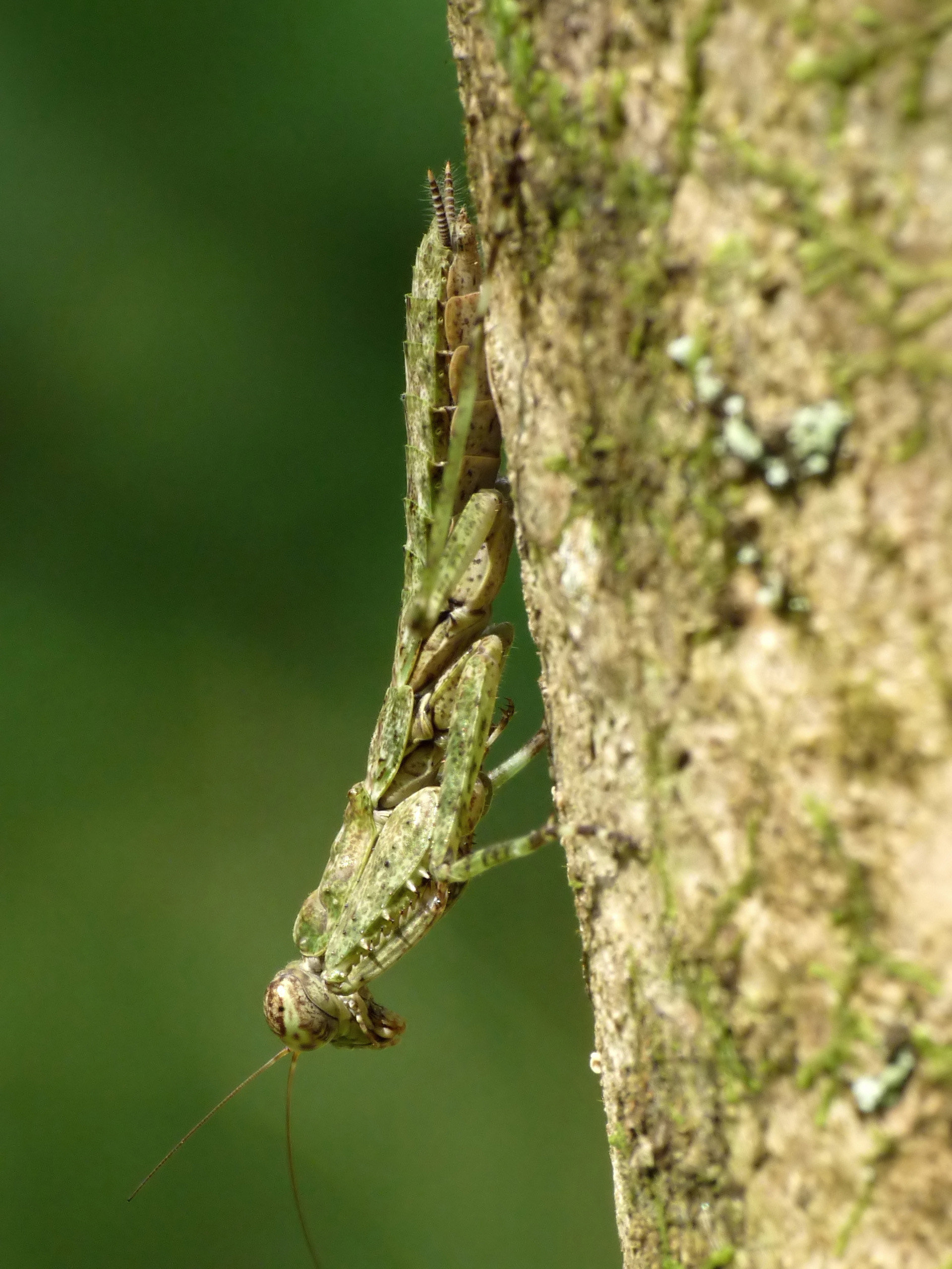 Humbertiella similis is a mantis in Liturgusidae family within the order Mantodea.